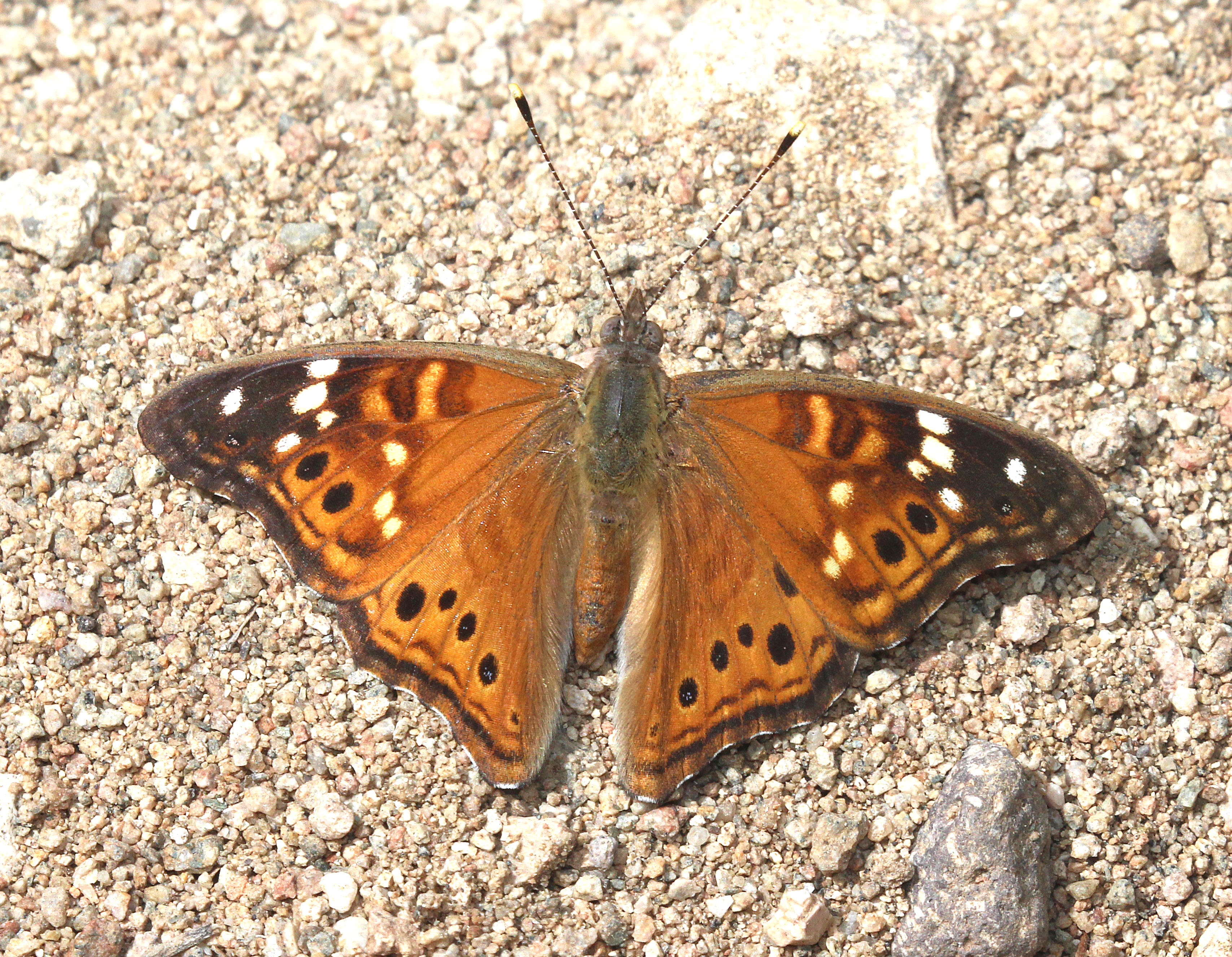 ARIZONA - BUTTERFLIES Butterflies of North America